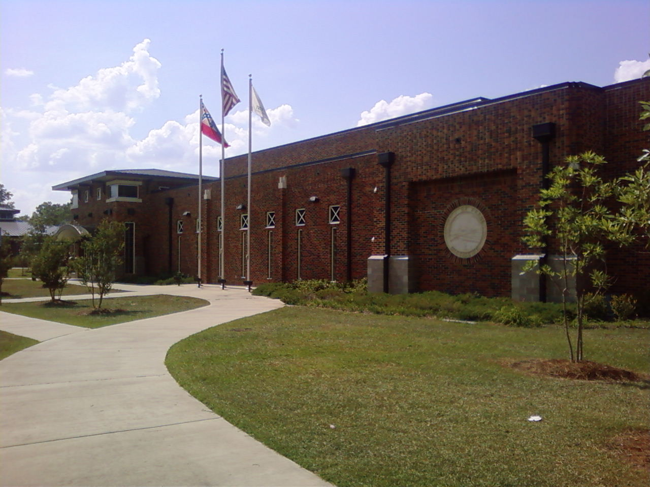 Community Center in Pearl, Mississippi